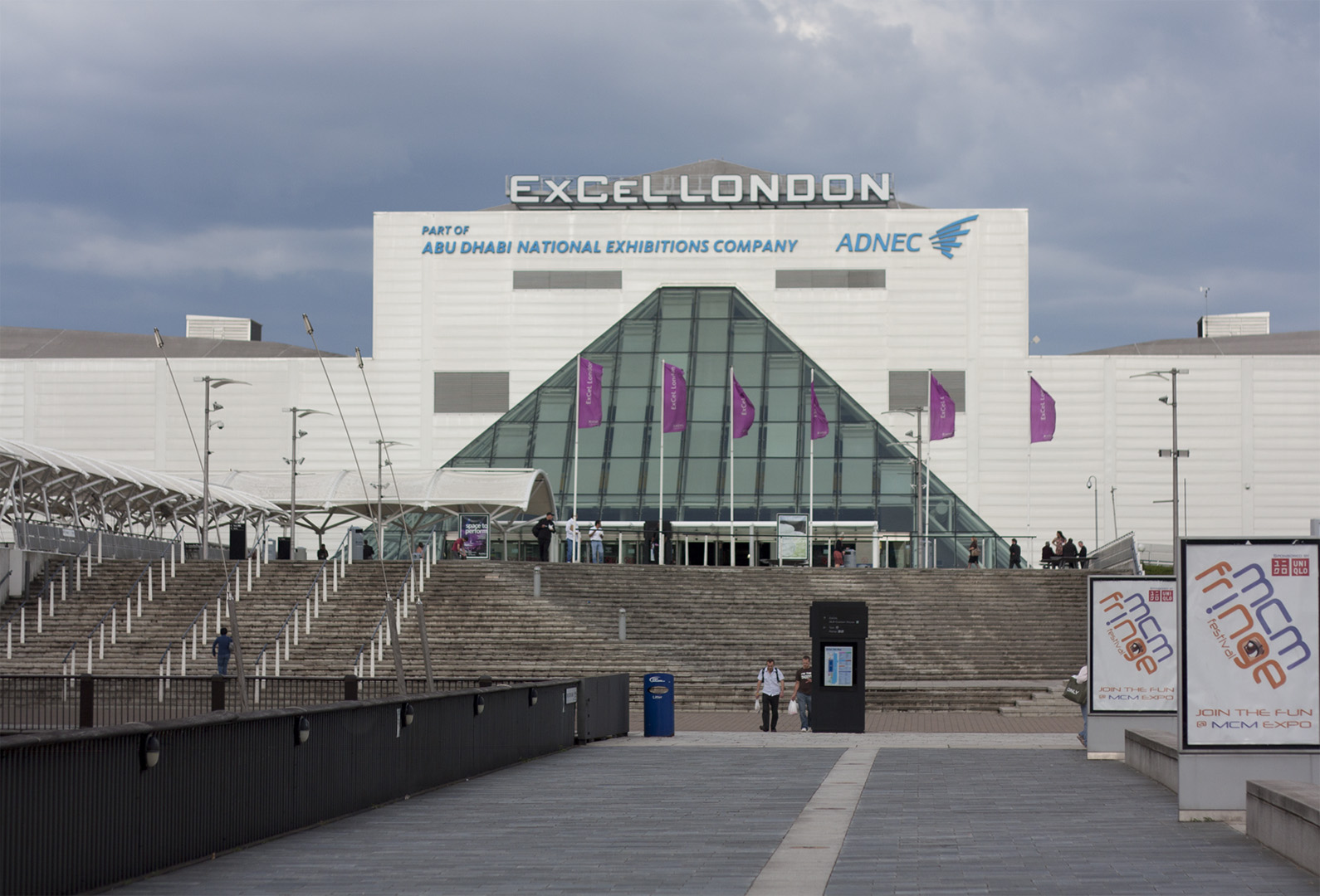 That's how main entrance to Excel looked like in 2011